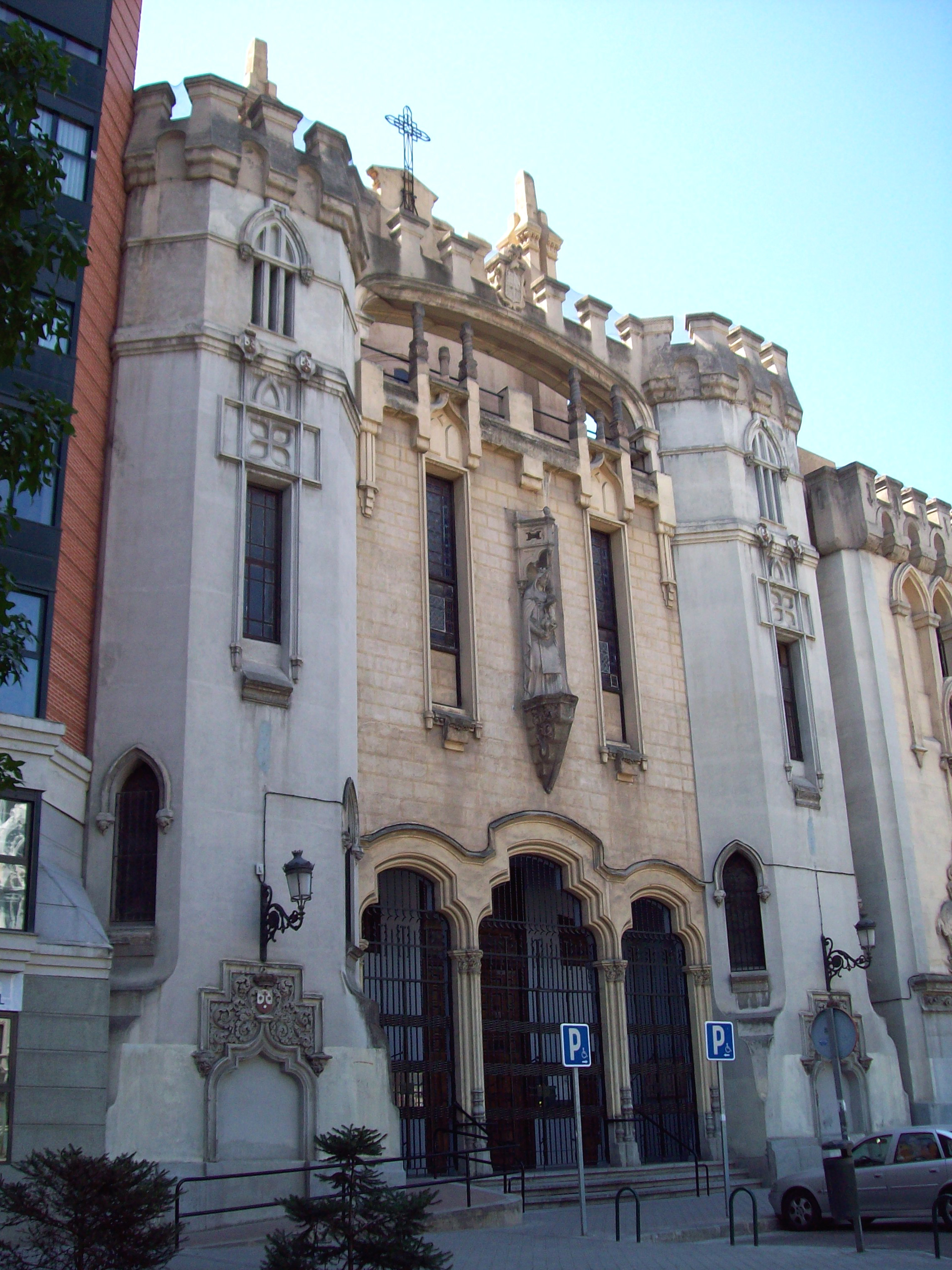 Partial view of the façade of St. Teresa and St. Joseph's Church in Madrid (Spain).